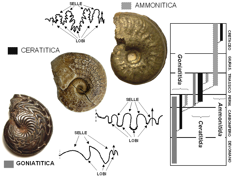 main sutural patterns of Ammonoidea (ammonites), and relative distribution in time and within the principal taxonomic groups. text in italian